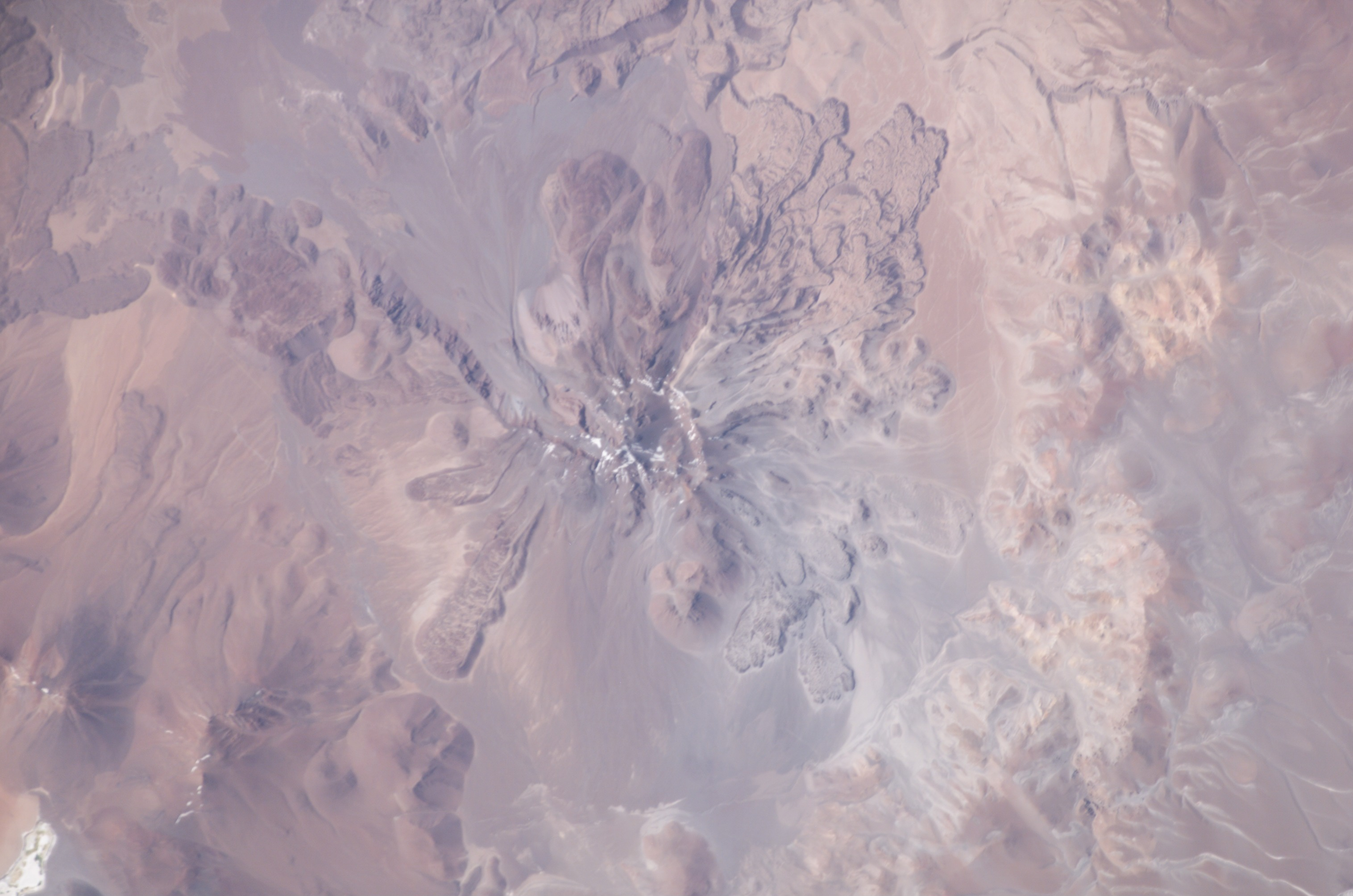 Socompa. Argentina - Chile